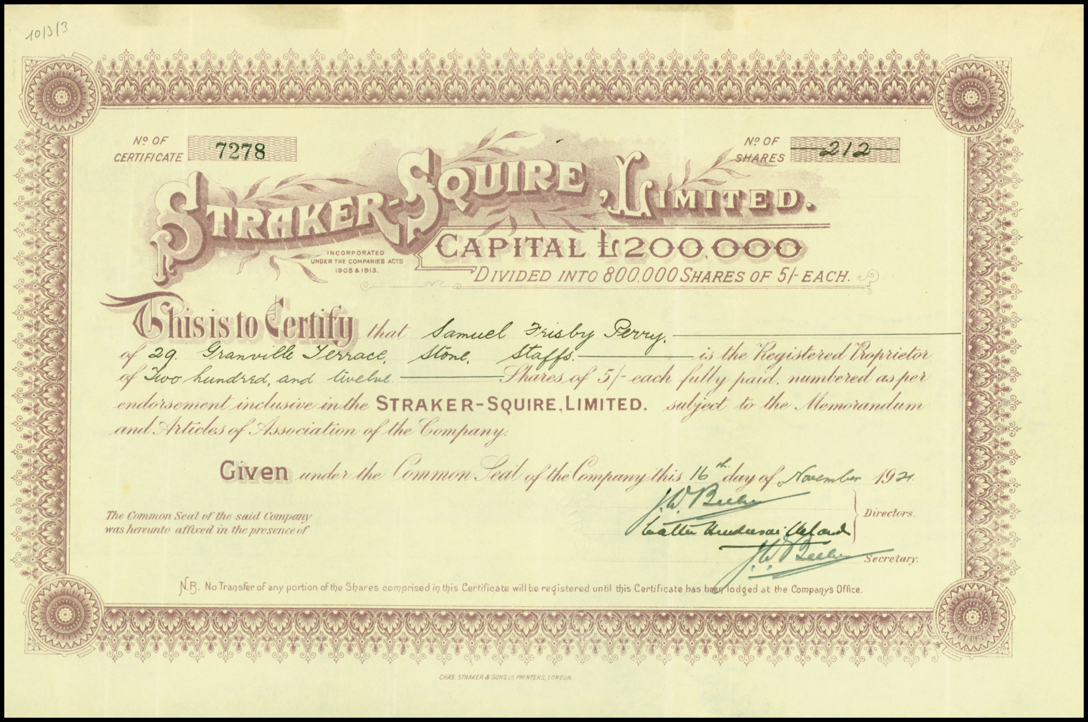 Share of the Straker-Squire Ltd., issued 16. November 1921